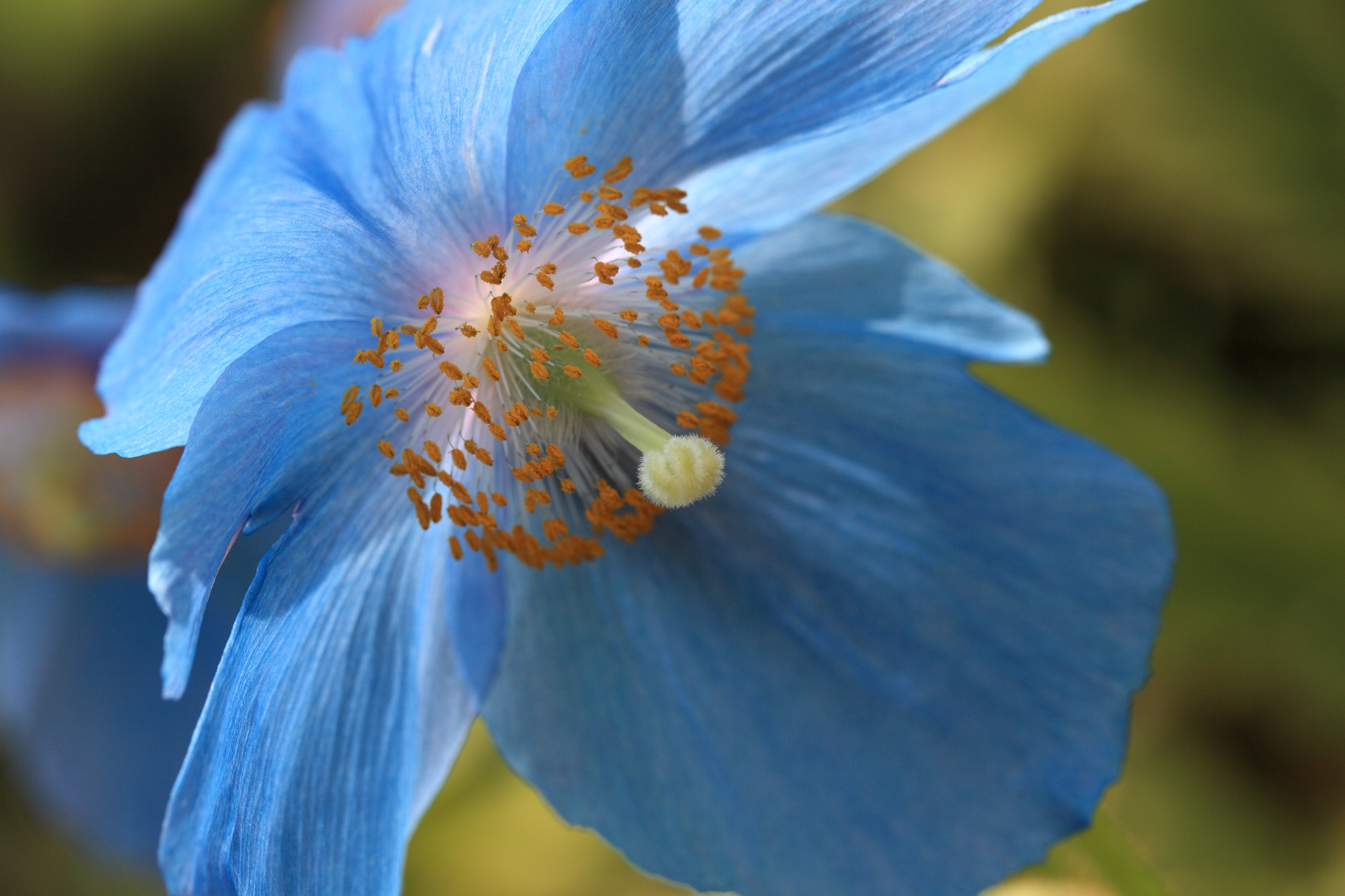 Igashira Park, Mooka-shi(city) Tochigi-ken(Prefecture), Japan 栃木県真岡市(とちぎけん もおかし) 井頭公園(いがしらこうえん)